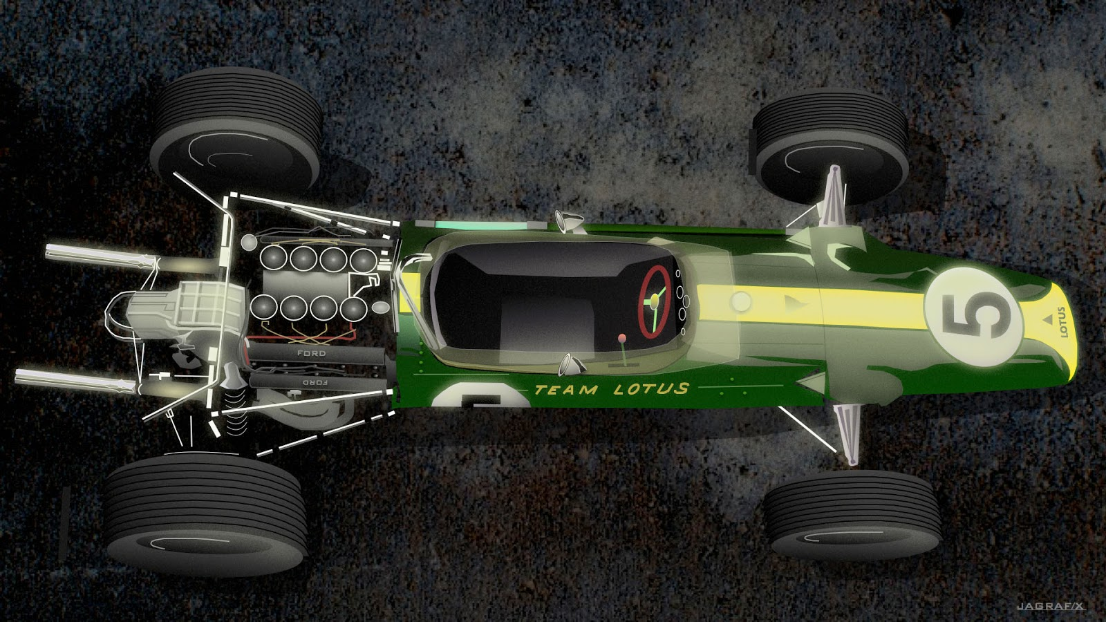 LOTUS 49 with Ford V-8 engine drawing using digital collage by JAGRAF/X